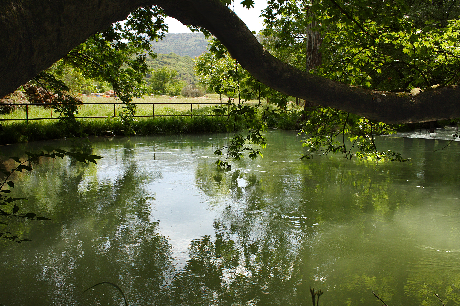 Karst spring on the Peloponnese, Greece. In no way protected so far (2007). Location should not be disclosed.